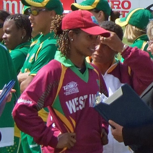 The West Indian cricketer Merissa Aguilleira during the 2009 Women's World Twenty20 at Taunton